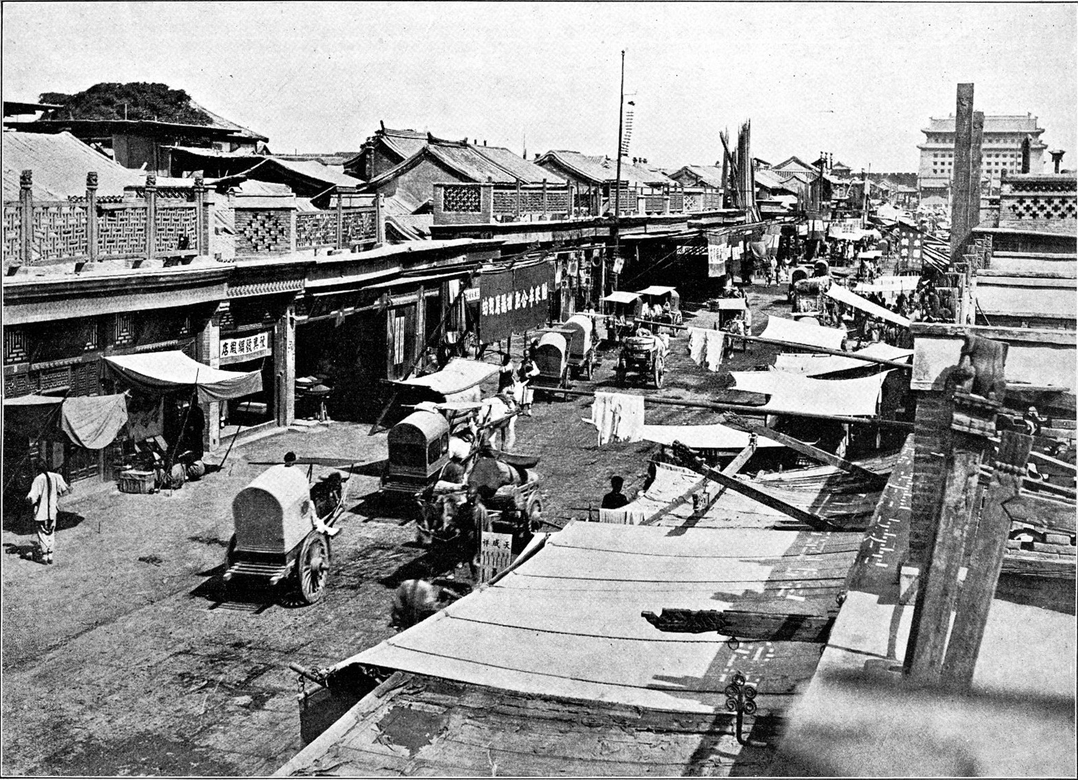 Photo form Peking (1906) by Sanshichiro Yamamoto.